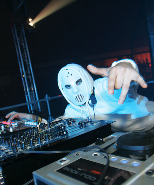 Angerfist